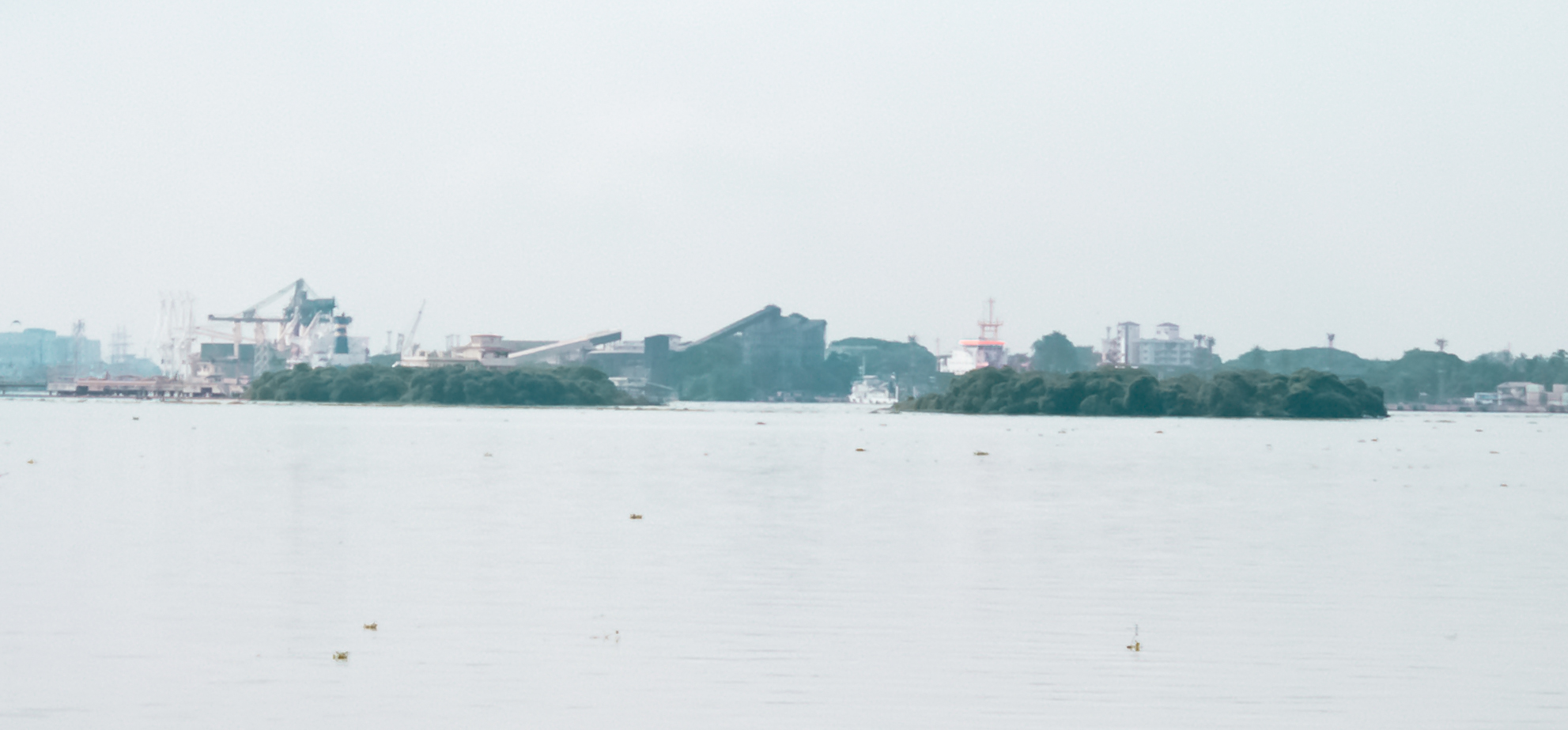 Two small uninhabited islets in Vembanad Backwater, Kochi, Kerala, India.